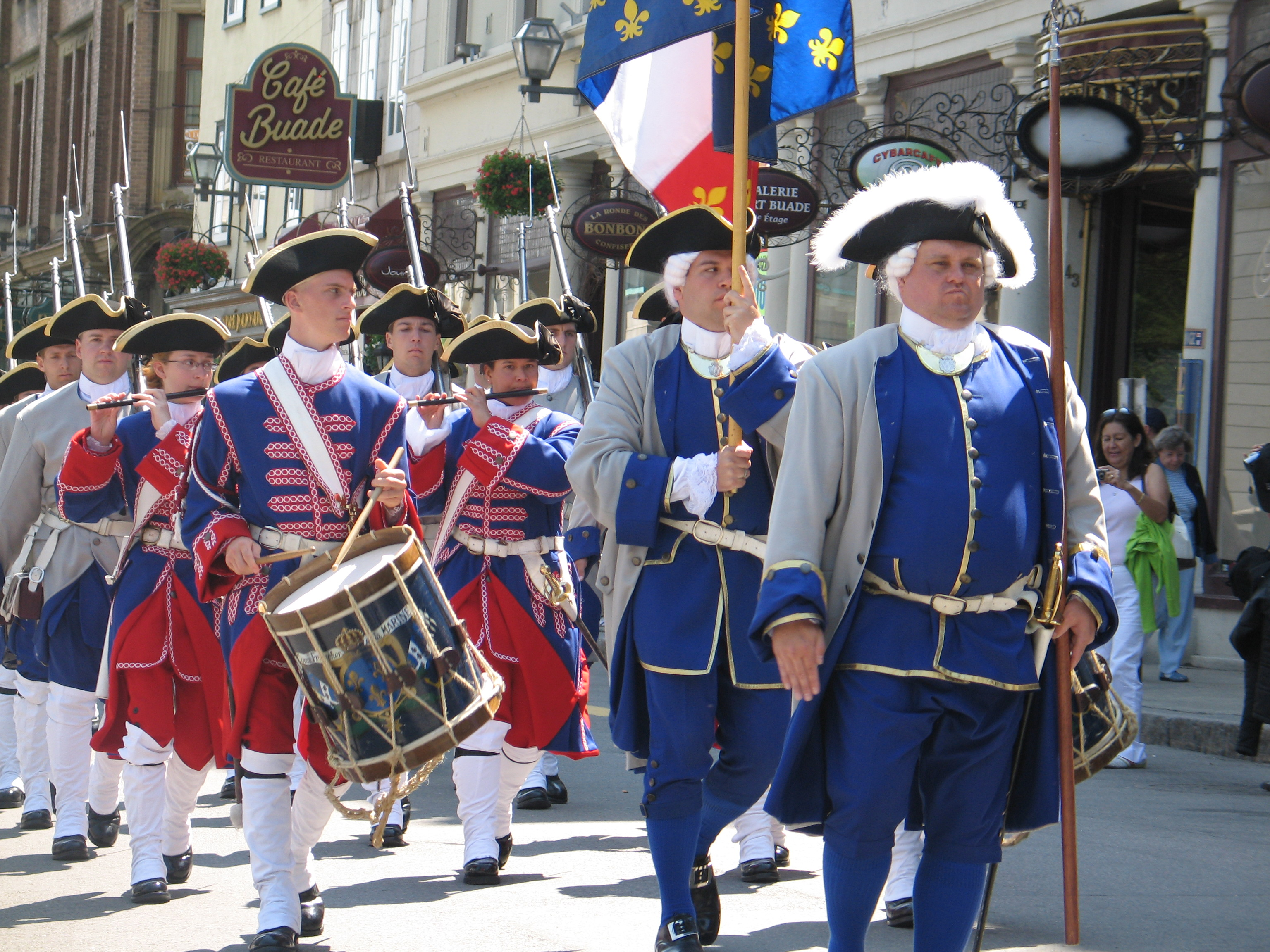 The Compagnie Franche de la Marine exercises its Freedom of the City in the old walled city of Quebec, on the occasion of its 398th anniversary, on July 3, 2006.